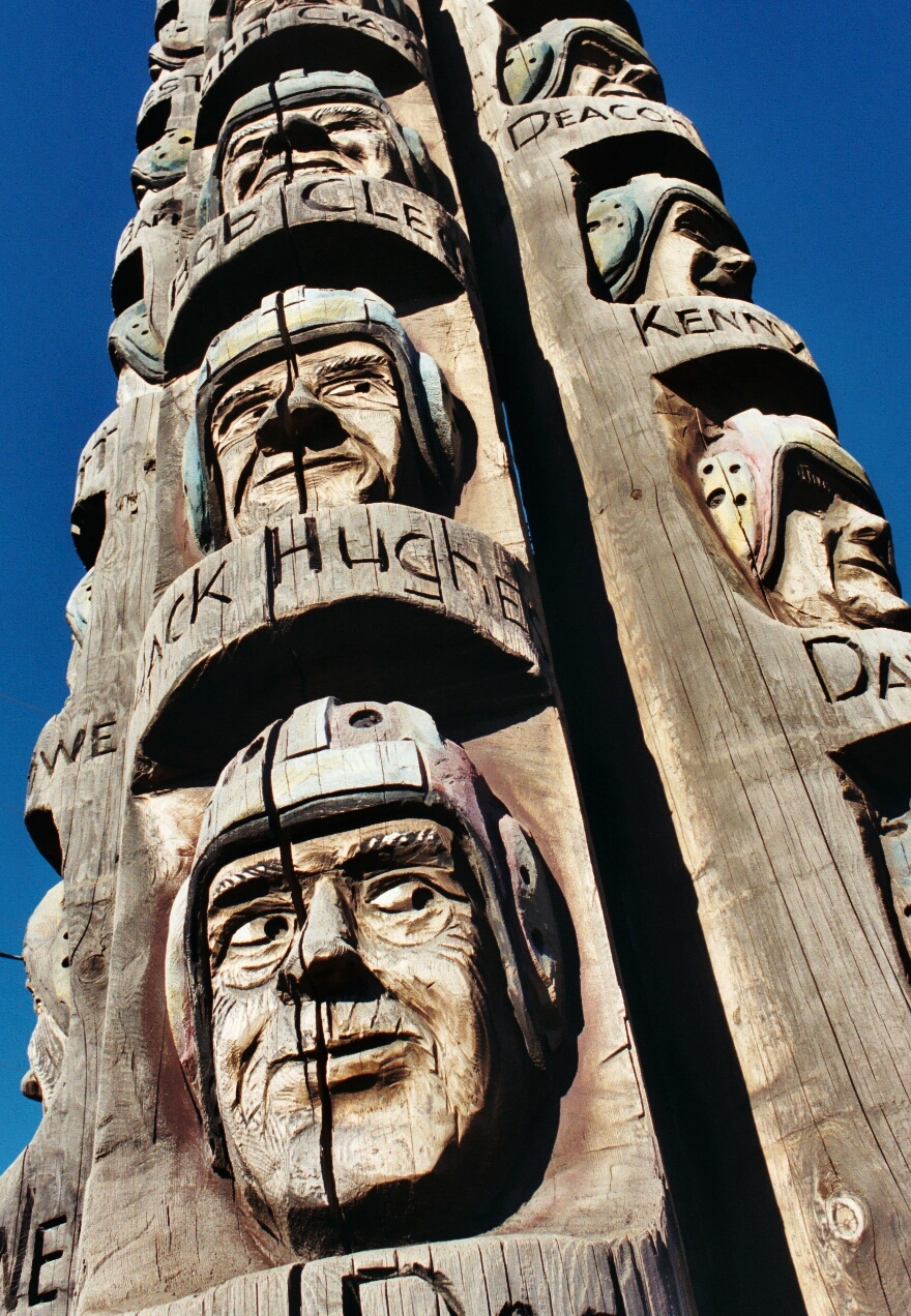 The "Codger Pole" in Colfax Washington